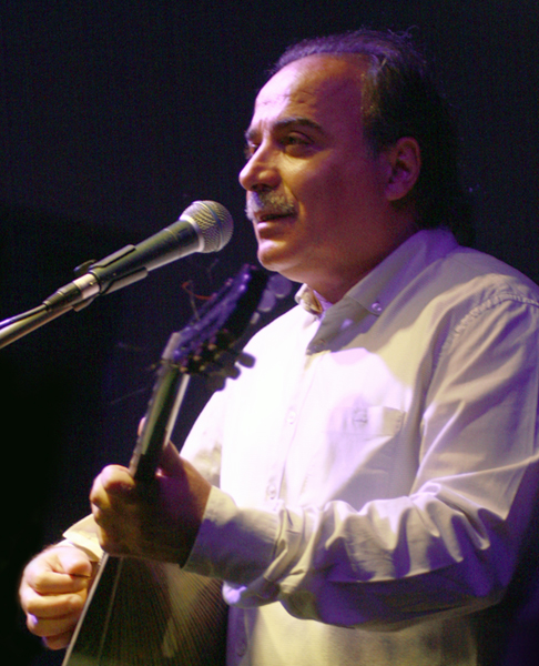 Photo from Babis Tsertos' concert.